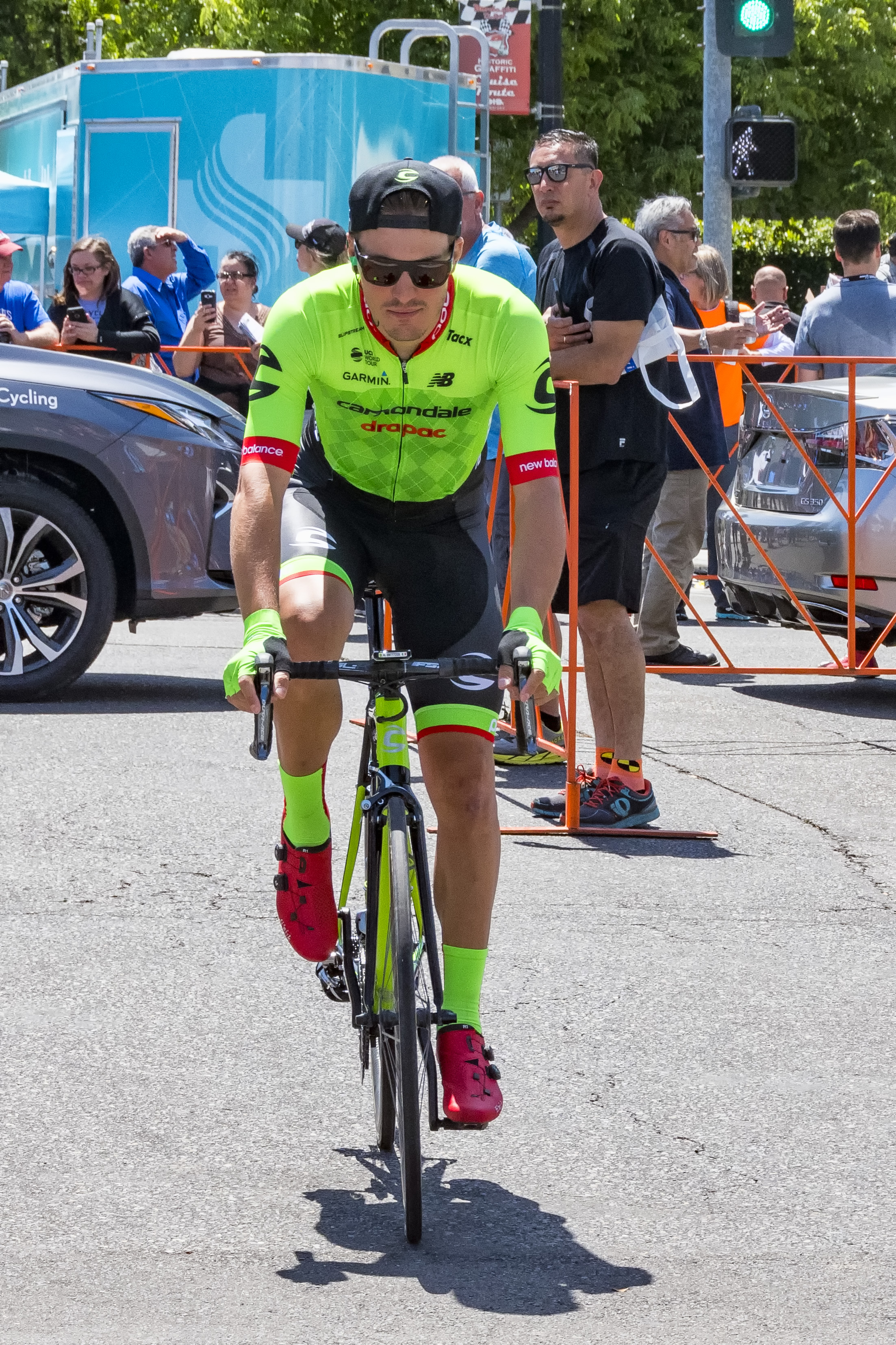 Amgen Tour of California 2017